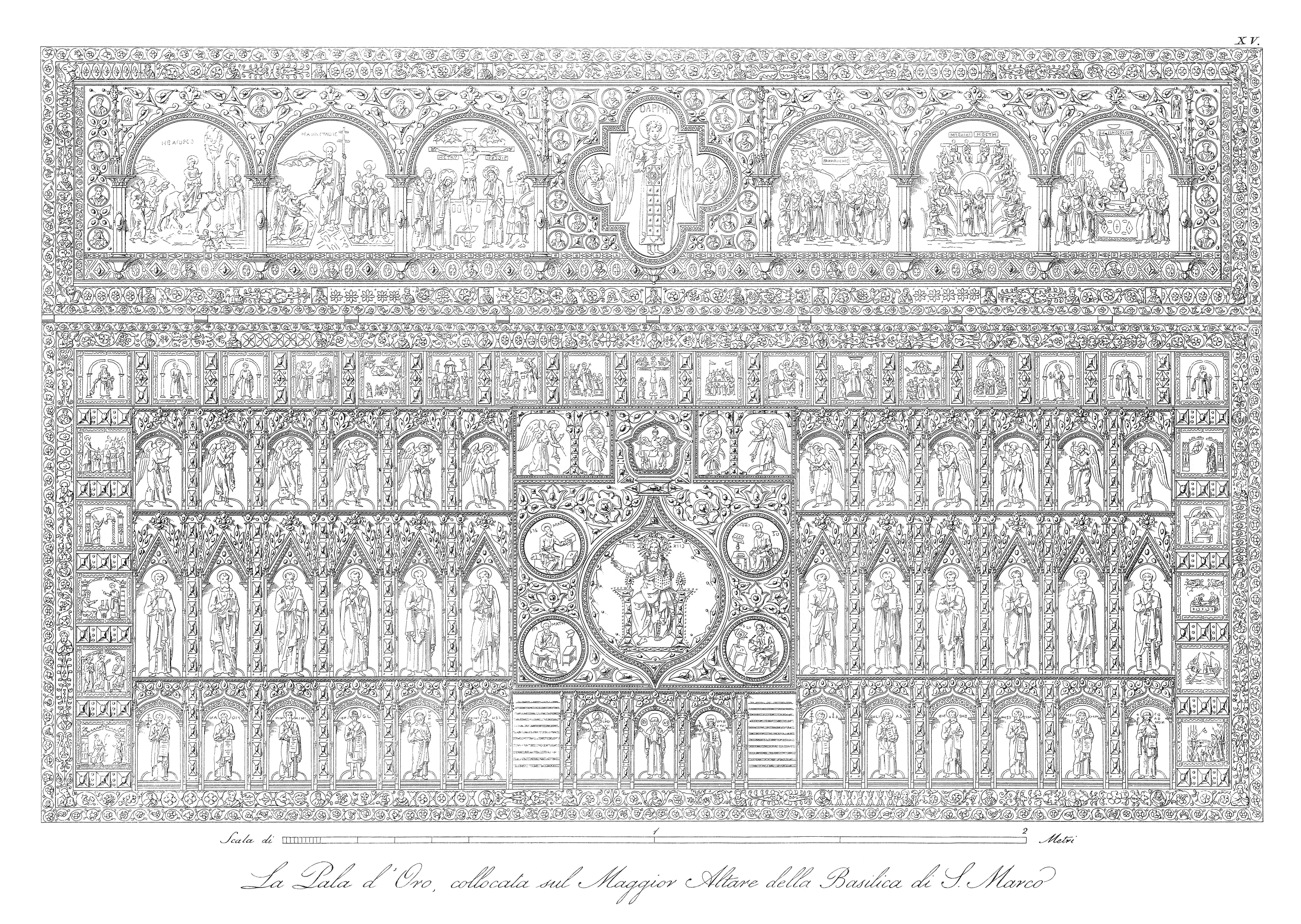 This image shows plate XV, entitled La Pala d’Oro, collocata sul Maggior Altare della Basilica di S. Marco. The so-called Pala d’Oro, a golden antepedium situated now at the back side of the main altar of St Mark’s Basilica. Taking a good photograph of this subtle work is very hard; this drawing provides a detailed image.